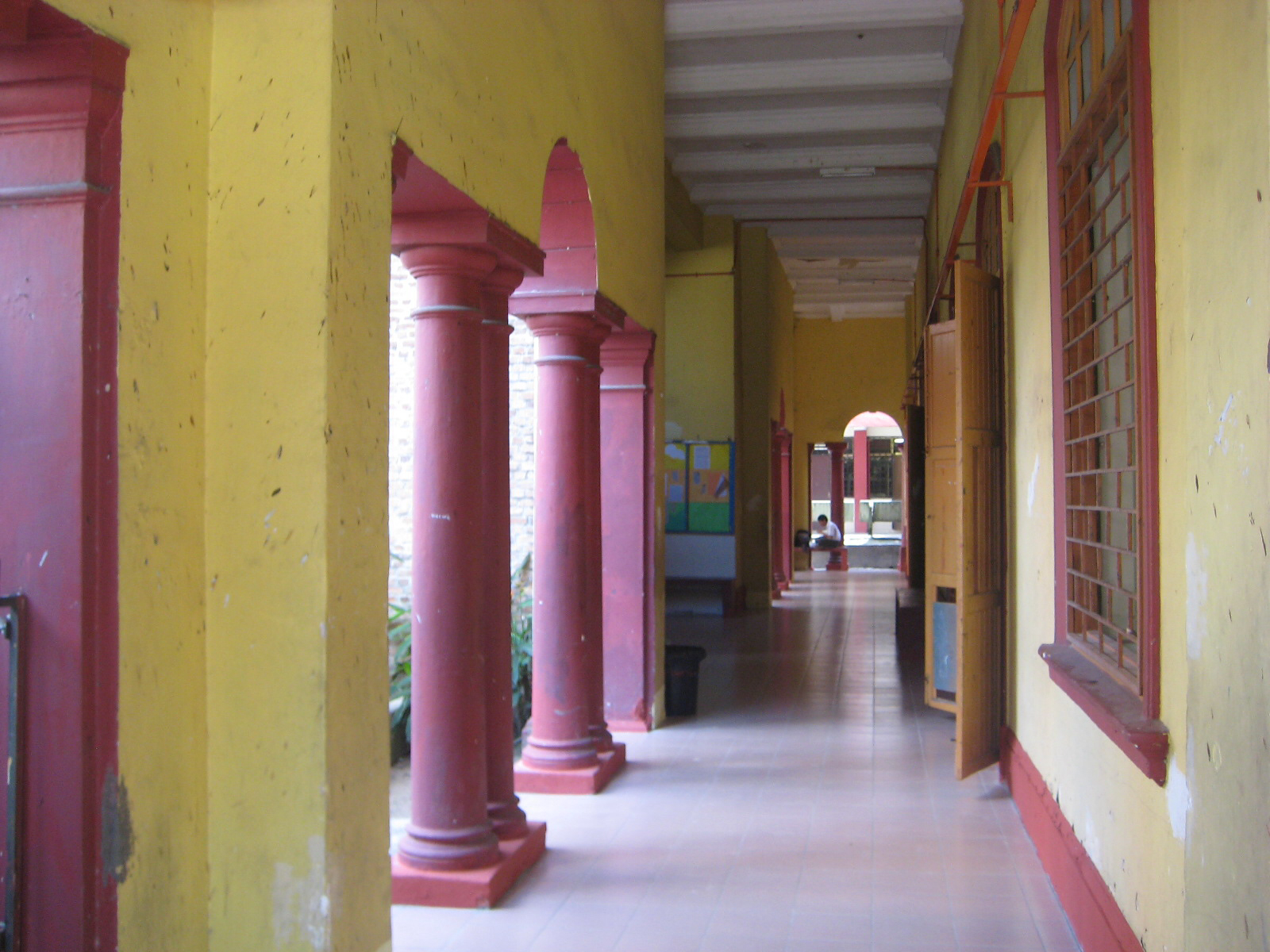 Kaki lima yang luas dan bersiling tinggi, Maxwell School